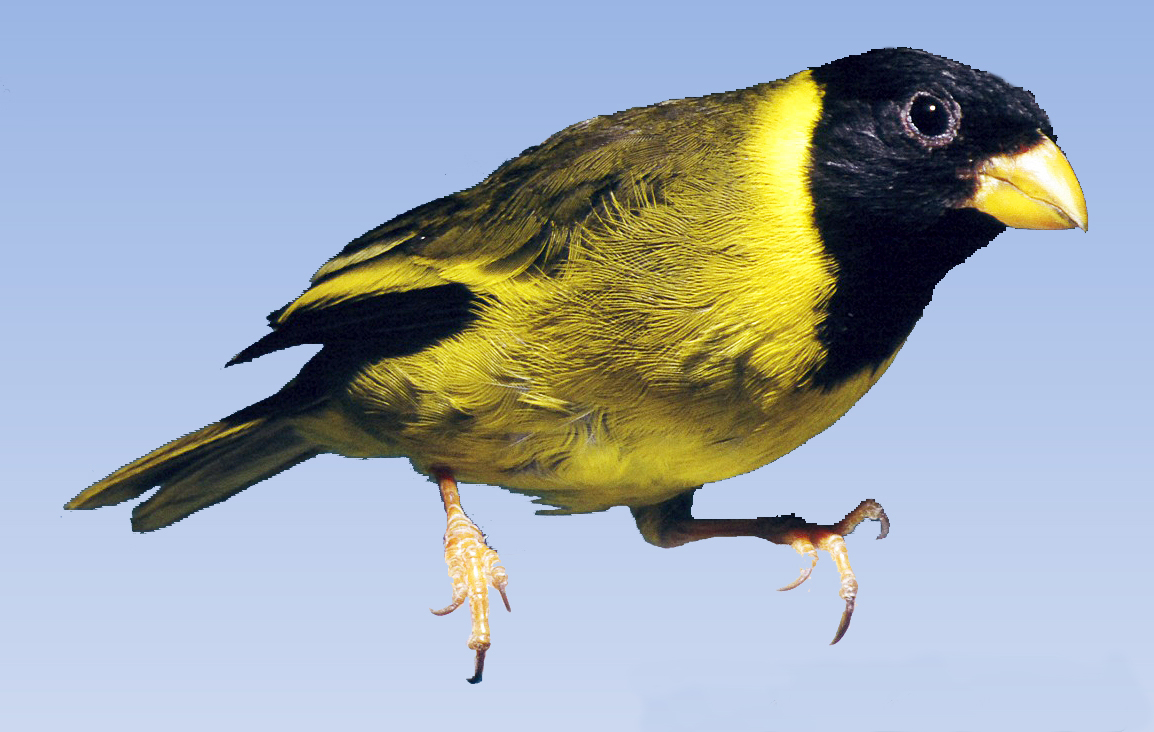 Male oriole finch